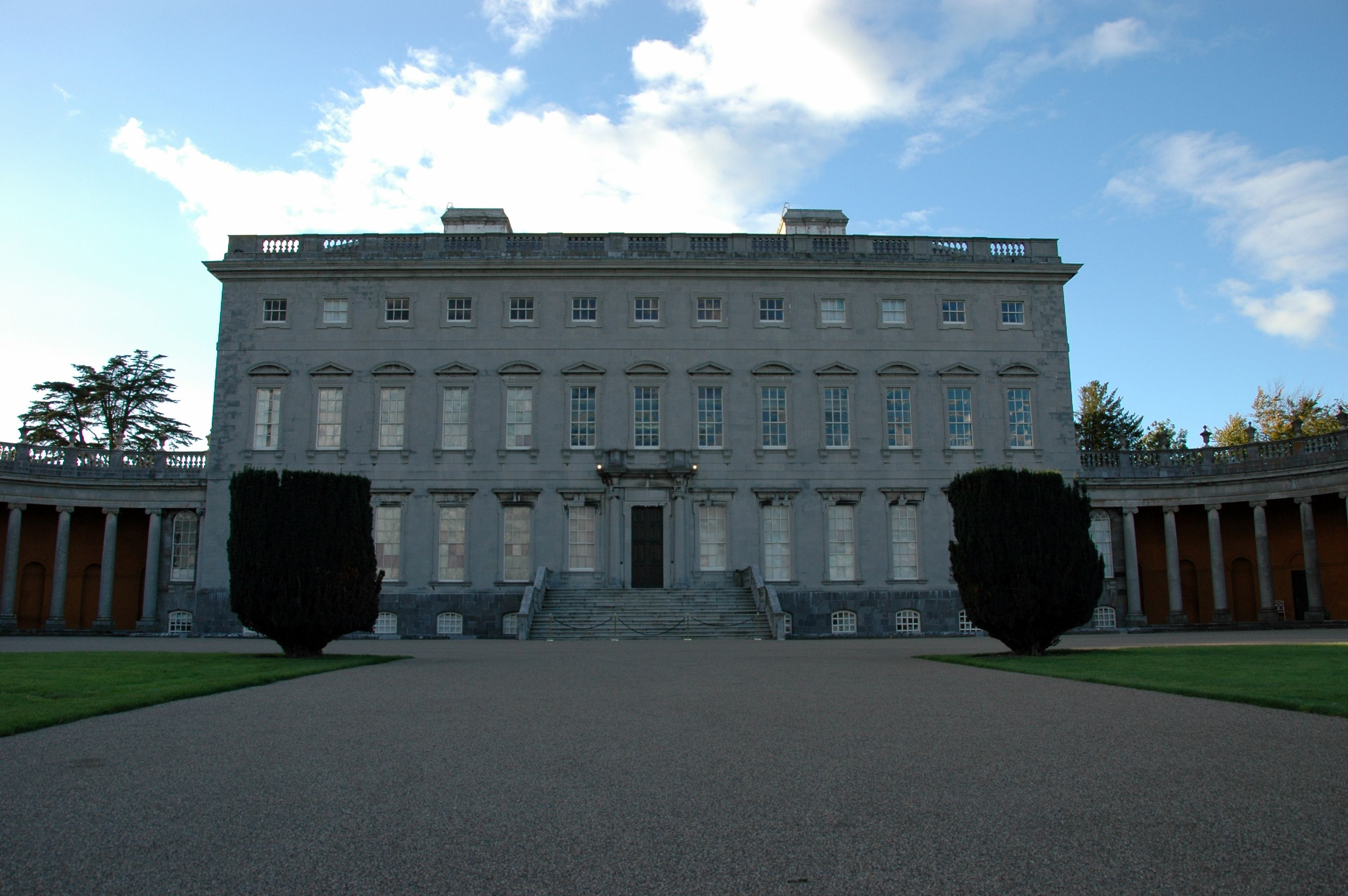 Castletown house was built in 1722 for ‘Speaker’ William Conolly. He was the speaker in the Irish House of Commons from 1715. The house was designed by an Italian architect Alessandro Galilei and it remains the only house in Ireland designed by him.